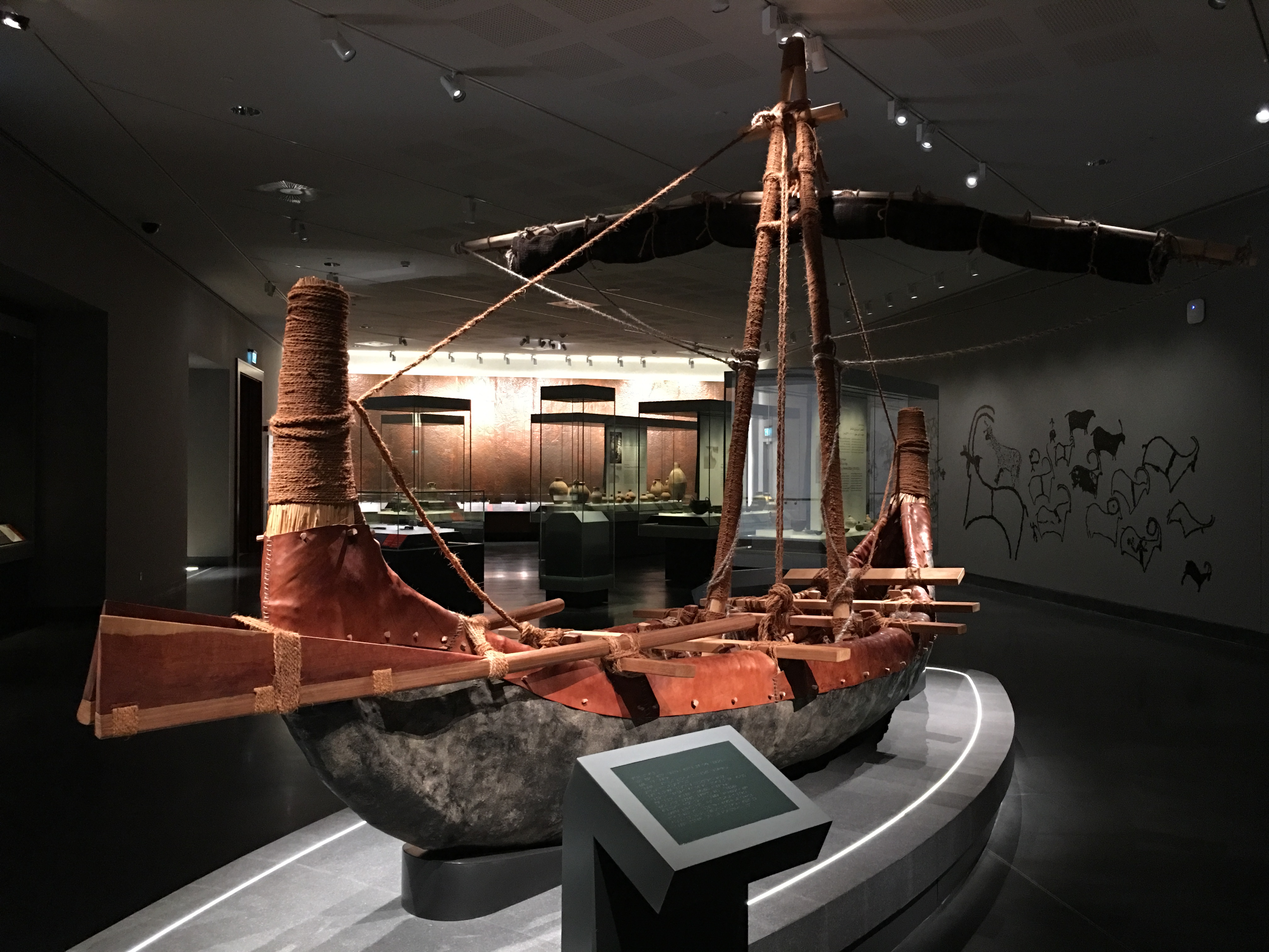 Model of Magan Boat Cherry wood and straw bundles Length: 0.8 m (Scale 1:15) 1433 AH/2012 CE